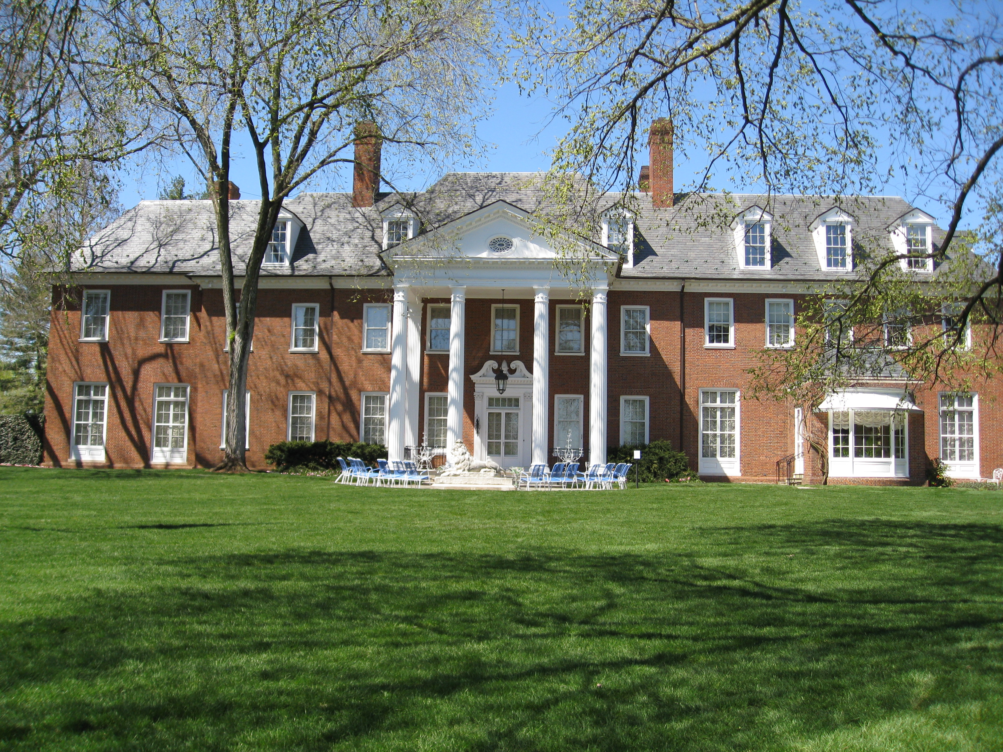 Hillwood Estate, Museum and Gardens, located at 4155 Linnean Avenue, NW Washington, DC. The estate is the former home and garden of Marjorie Merriweather Post. The museum features furnished rooms decorated with Post's collection of 18th and 19th century French art and art treasures from Imperial Russia. This is a view of the rear of the mansion.